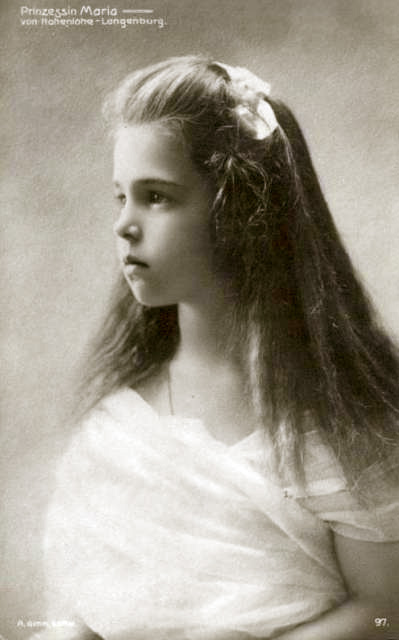 Princess Marie Melita of Hohenlohe-Langenburg